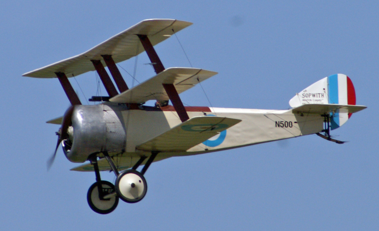 Sopwith Triplane replica